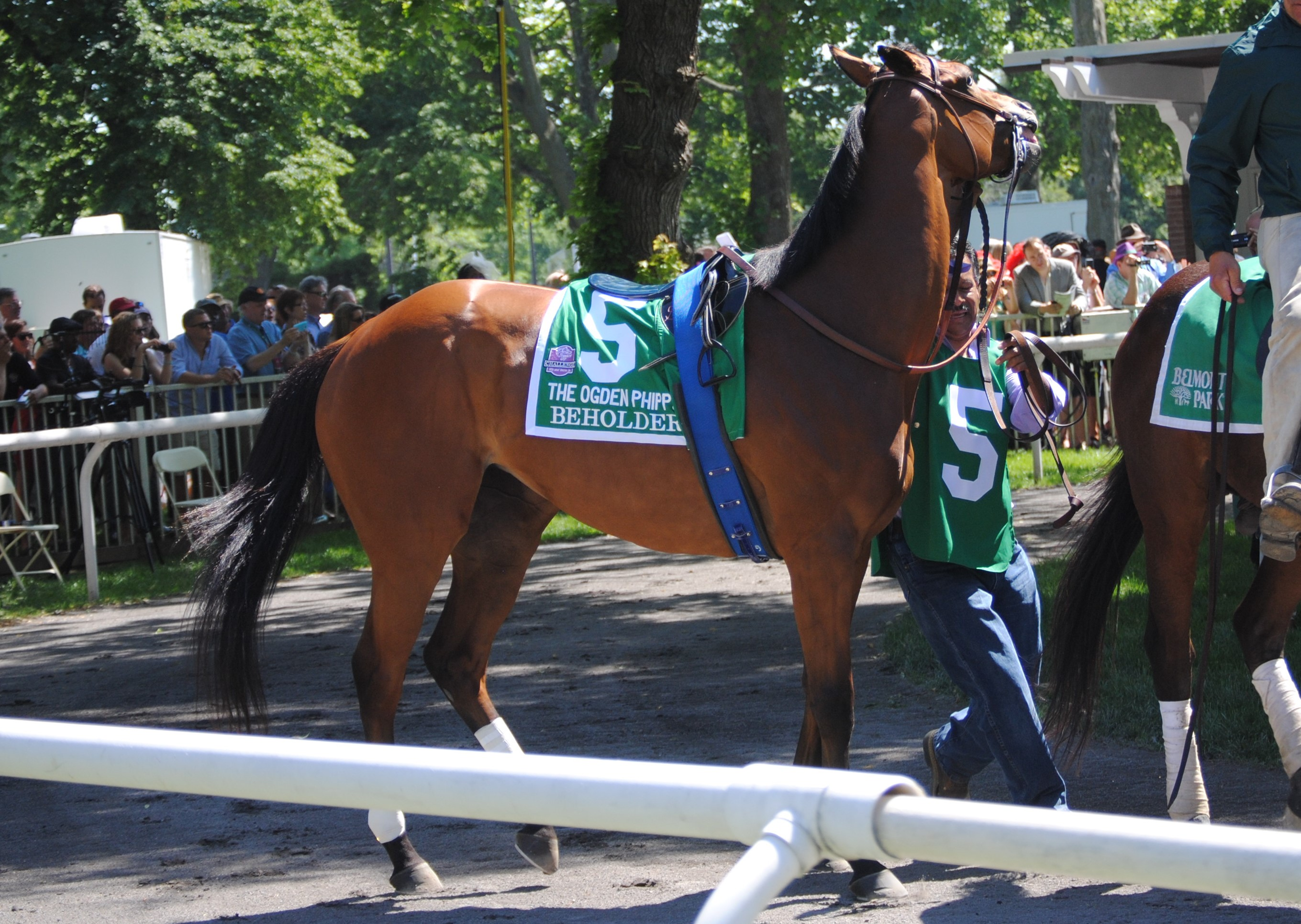 Beholder in the walking ring for the 2014 Ogden Phipps